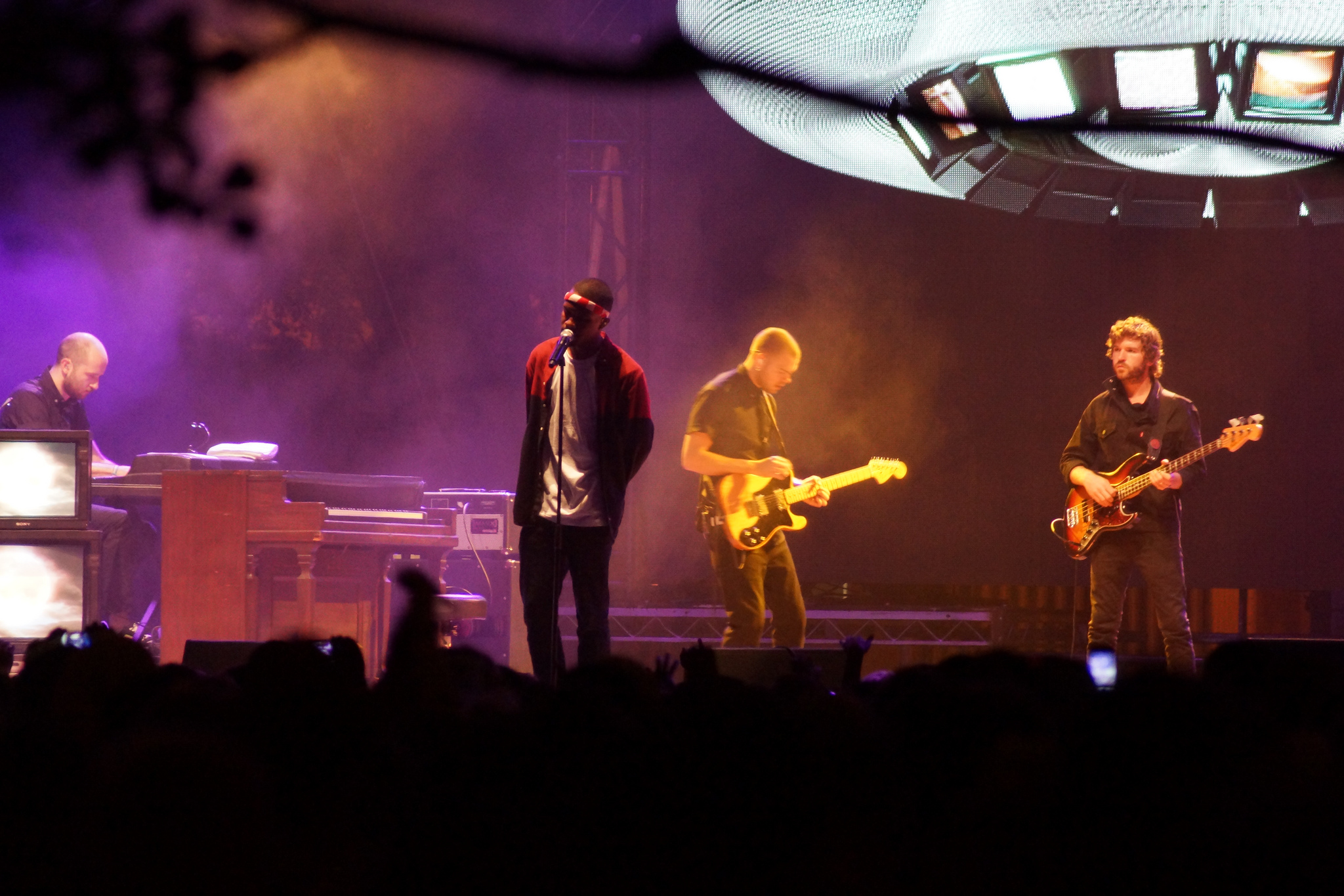 Frank Ocean performing at Lollapalooza in Chicago, 2012